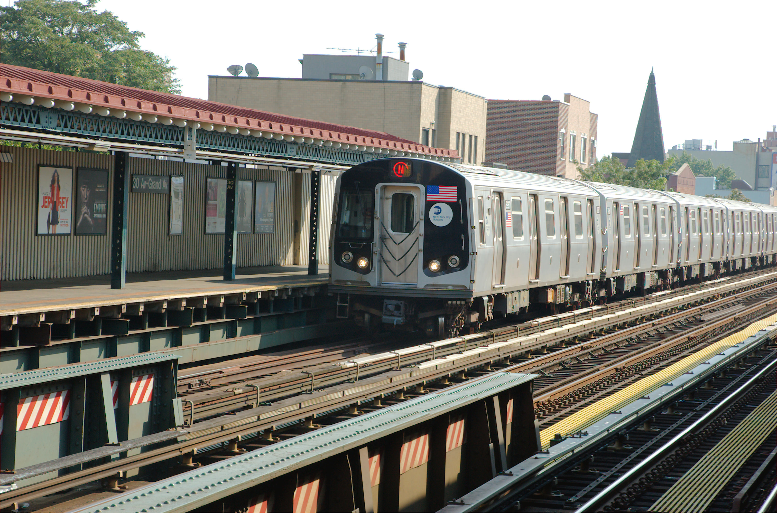 An N train of the BMT Astoria Line enters 30th Avenue Station in the Astoria neighborhood of Queens, New York.